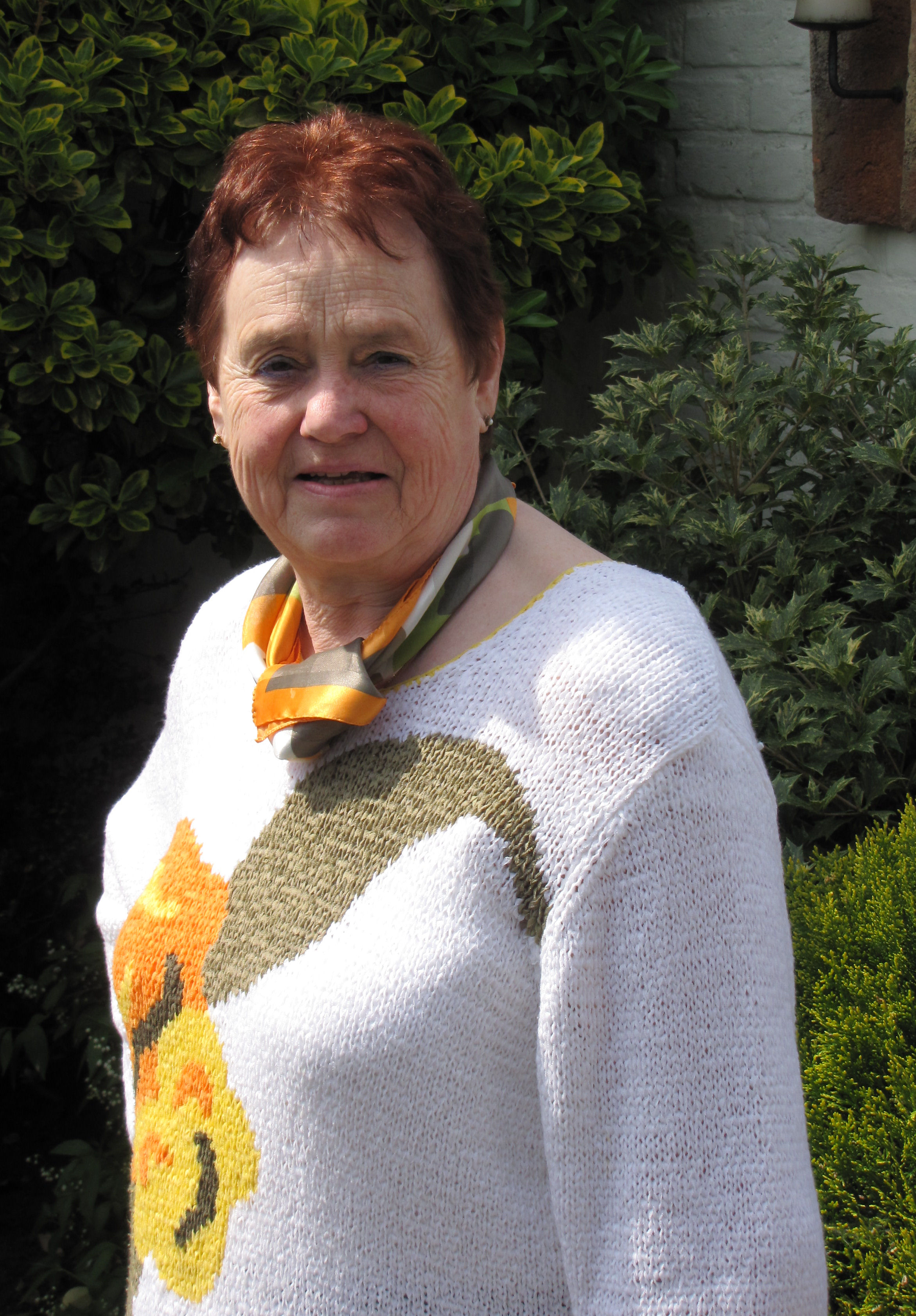 Lia Louer-Hinten at home, spring 2010